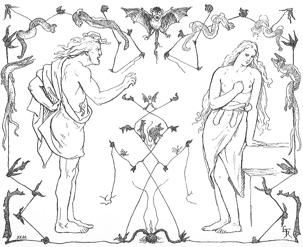 The third of three Skírnismál images by Frølich depicting Freyr's messenger Skírnir threating Gerðr.